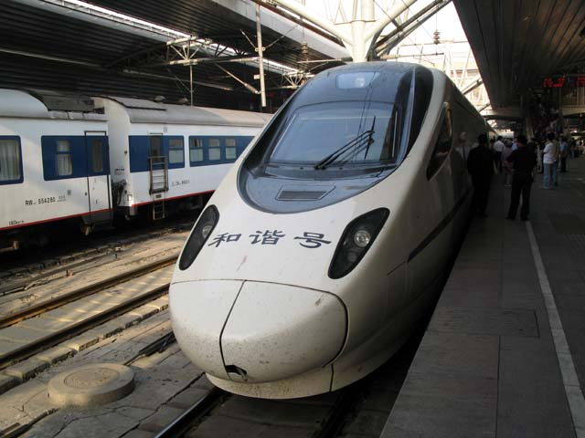 CRH5 train in Beijing Station